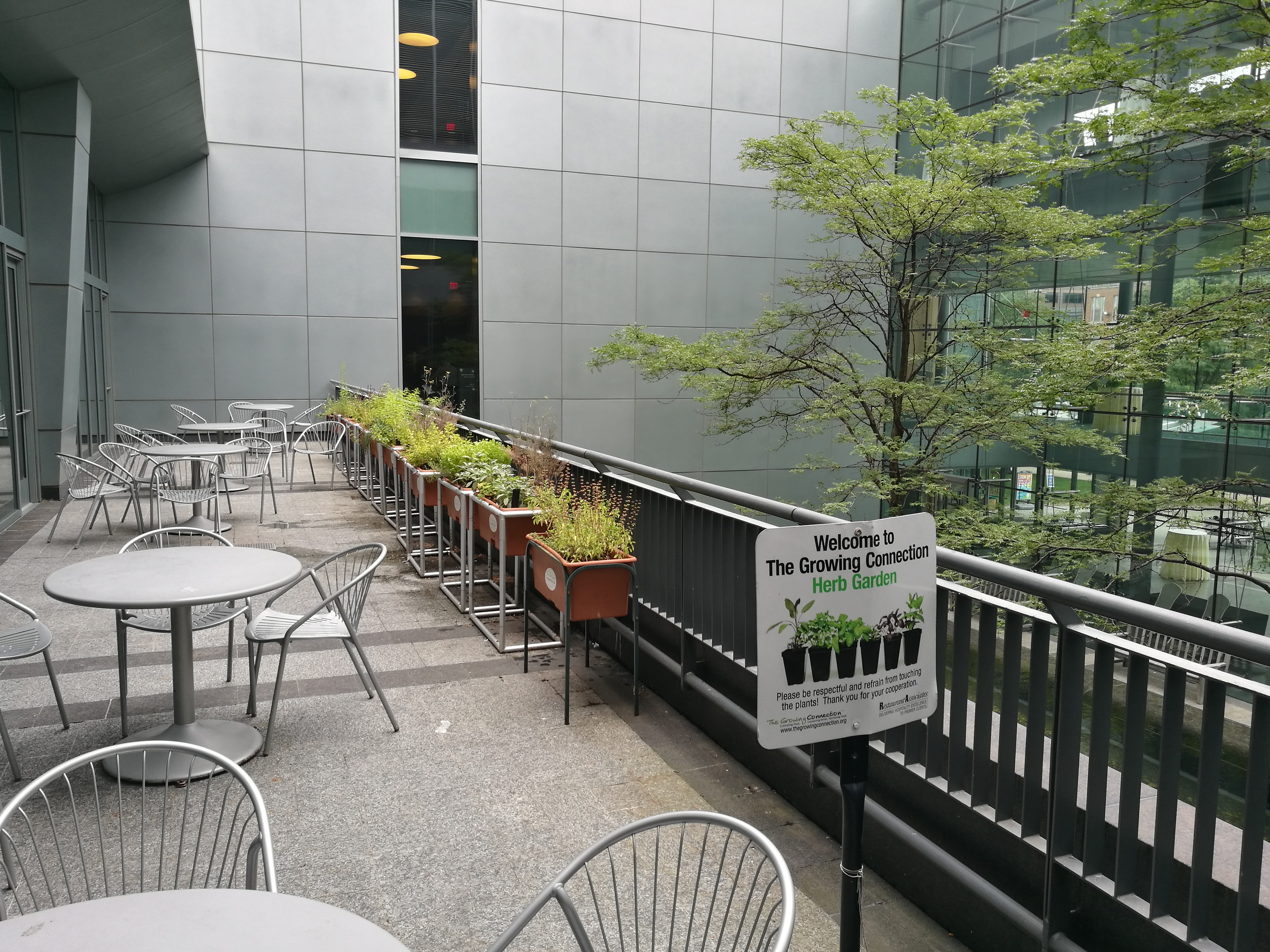 inner courtyard of the NRB in summer